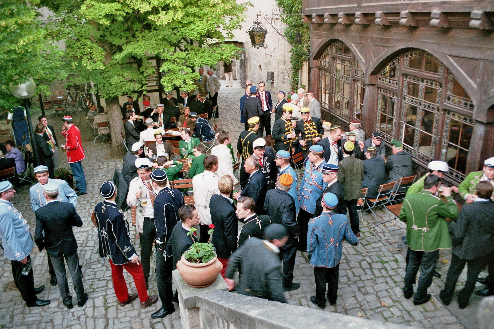 Corps students in the inner court of Rudelsburg Castle in Sachsen-Anhalt / Germany